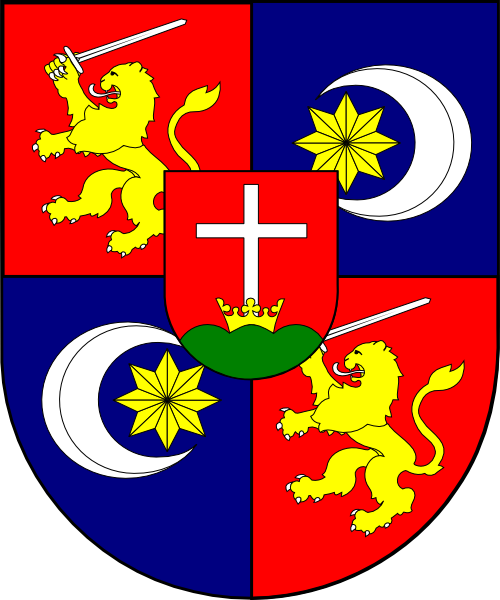 Coat of arms (shield only) of István / Štefan Fejerk˜övi, bishop of Veszprém, Hungary (1572 - 1587), bishop of Nitra, Slovakia (1587 - 1596), archbishop of Esztergom (1596), based on sculpture in Franciscan church in Bratislava